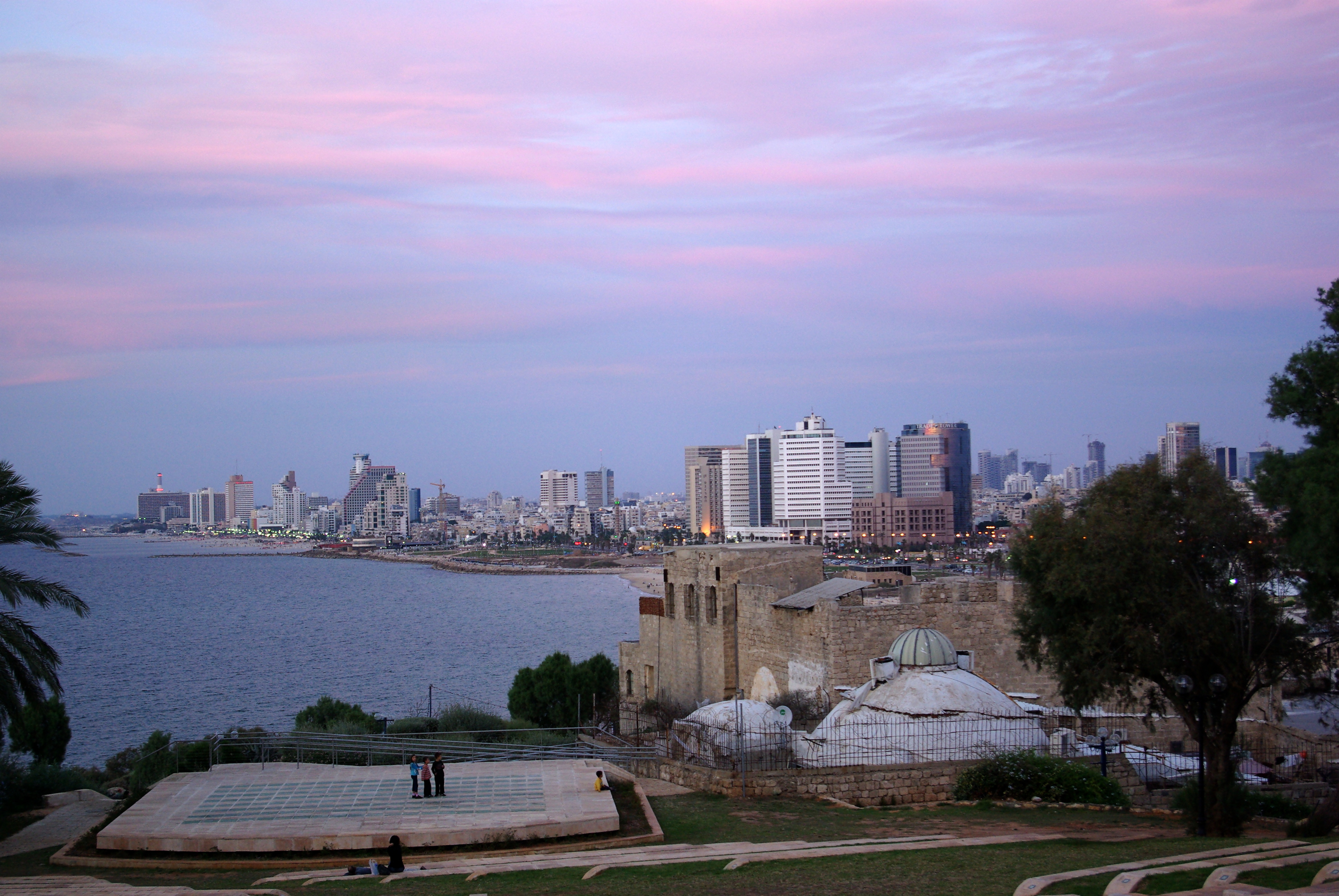 Tel Aviv